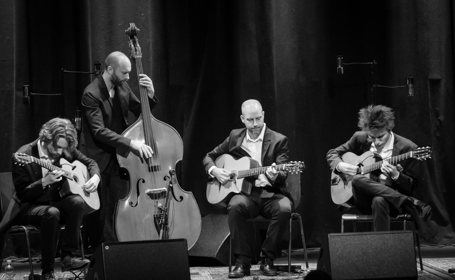 Acoustic Connection at Cosmopolite. The concert was part of Djangofestivalen 2017 and took place on 20. January 2017 in Oslo. Acoustic Connection is a collaboration project between Gustav Lundgren Trio and Antoine Boyer.Lineup:Gustav Lundgren (guitar)Andreas Unge (double bass)Martin Widlund (guitar)Antoine Boyer (guitar)